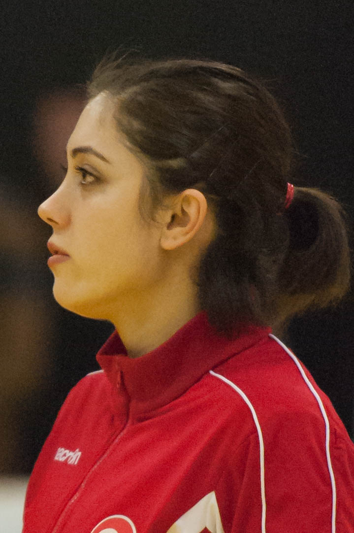 2015 World Women's Handball Championship Qualification 2014-12-06: Yasemin Şahin